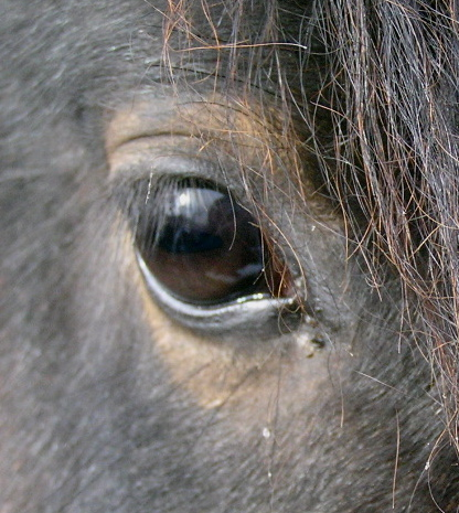 Photo of the eye of a young Arabian horse